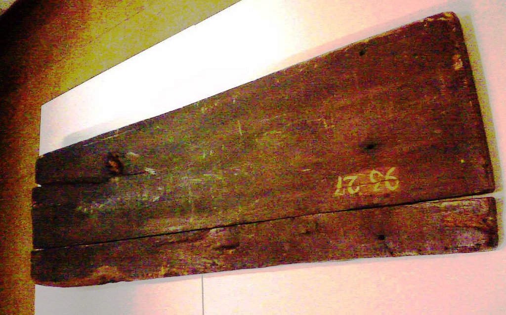 The board in Derby Museum which is kept as Jeremiah Brandreth was beheaded for treason -he was already dead